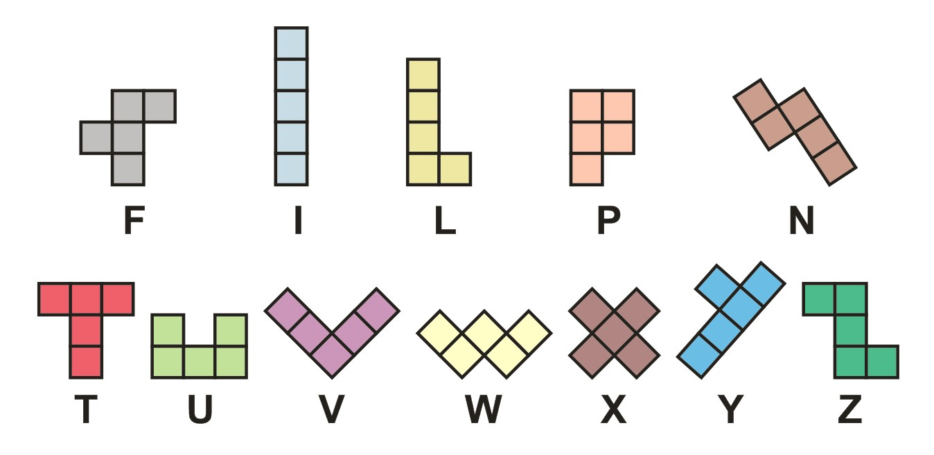 12 different pentomino tiles FLPN,TUVWXYZ